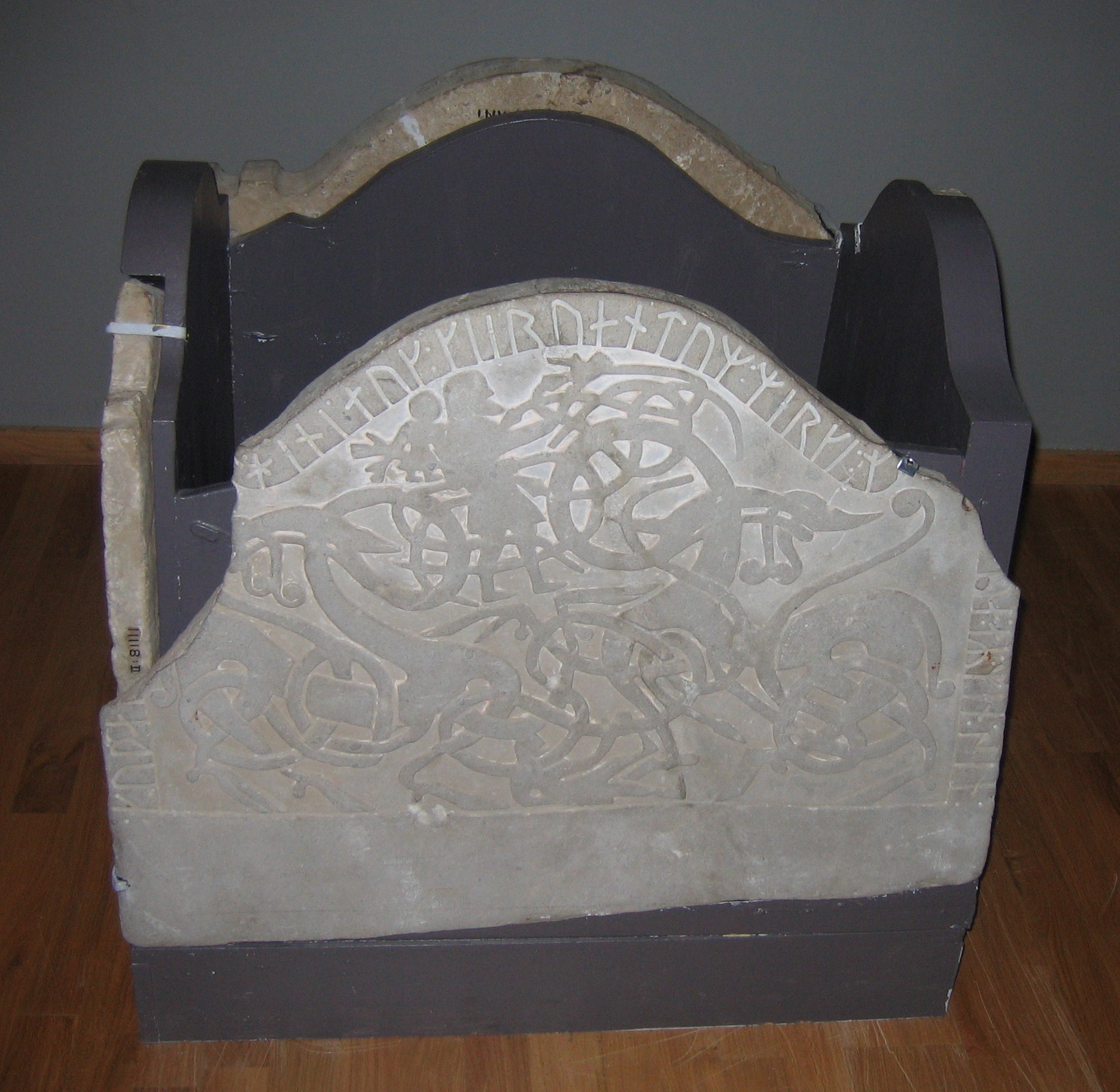 cist